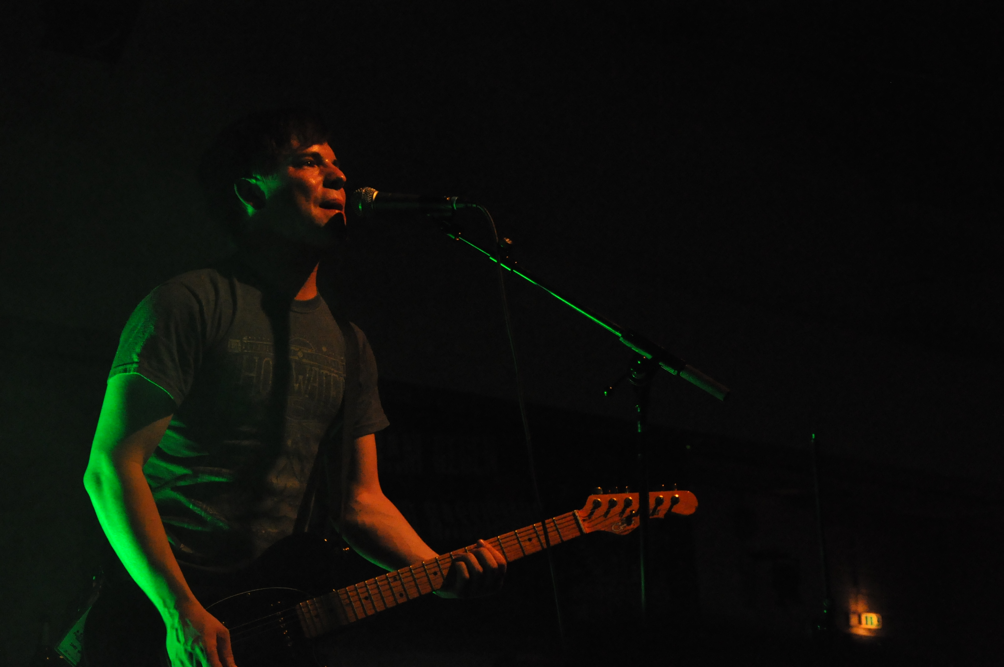 The German Electropunk band Egotronic at Kein Bock auf Nazis Festival, Düsseldorf 2013